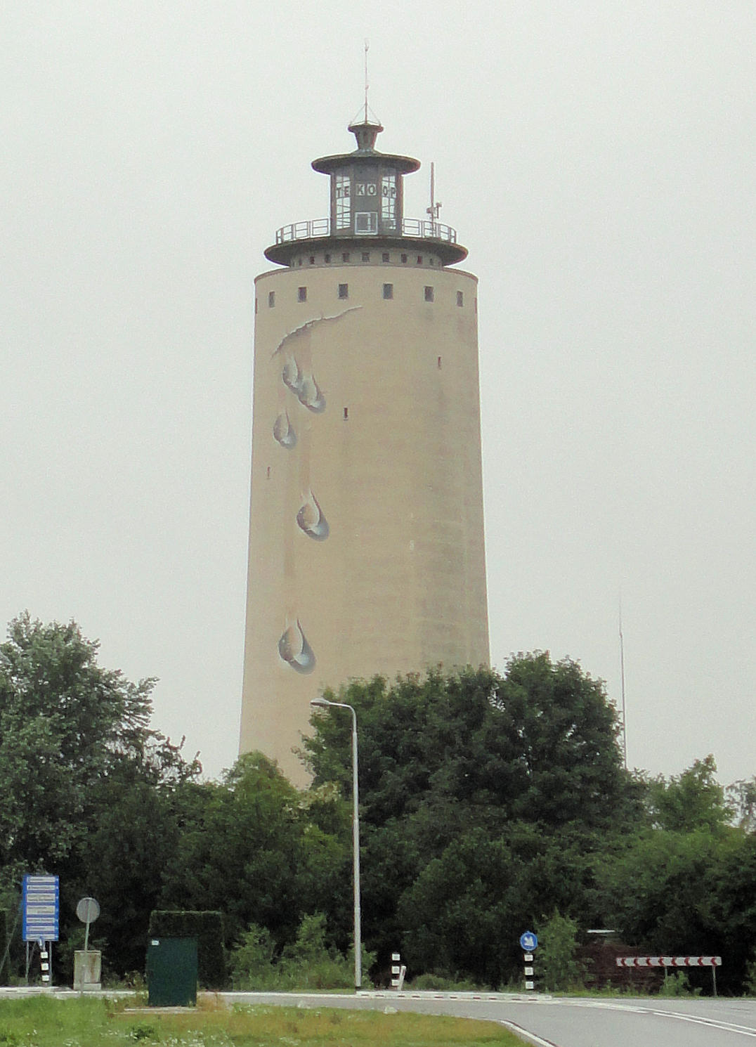 Painting of Johnny Beerends on water tower in Oostburg, The Netherlands Bron:Beelden in de Zeeuws Vlaanderen